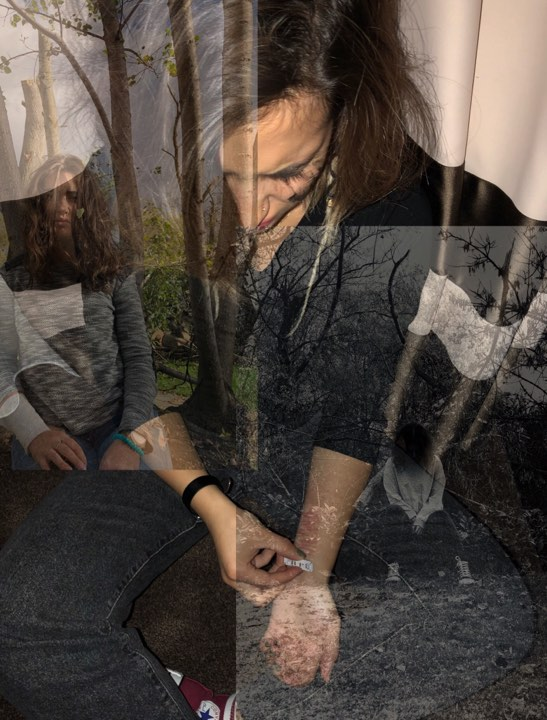 Bullying and depression